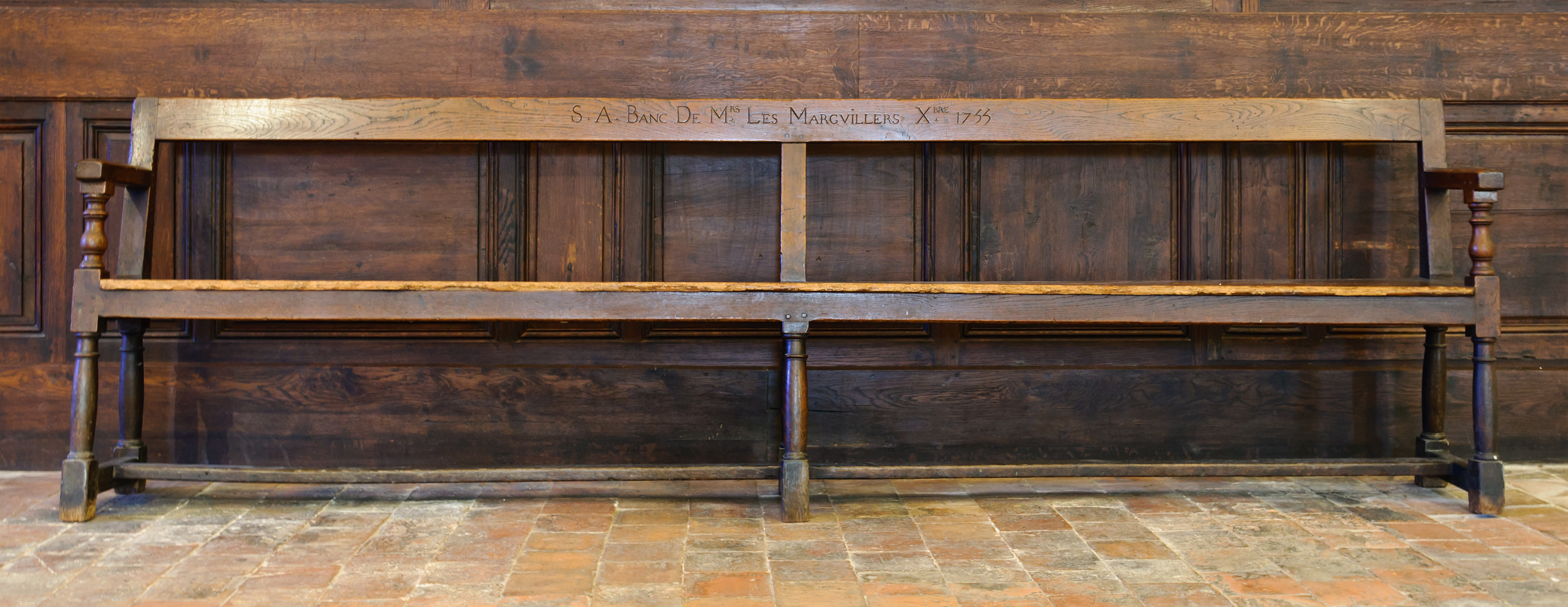 Banc des Marguilliers (≈ Churchwardens' bench) (1755) in Saint Ayoul church, Provins, Seine-et-Marne, France.